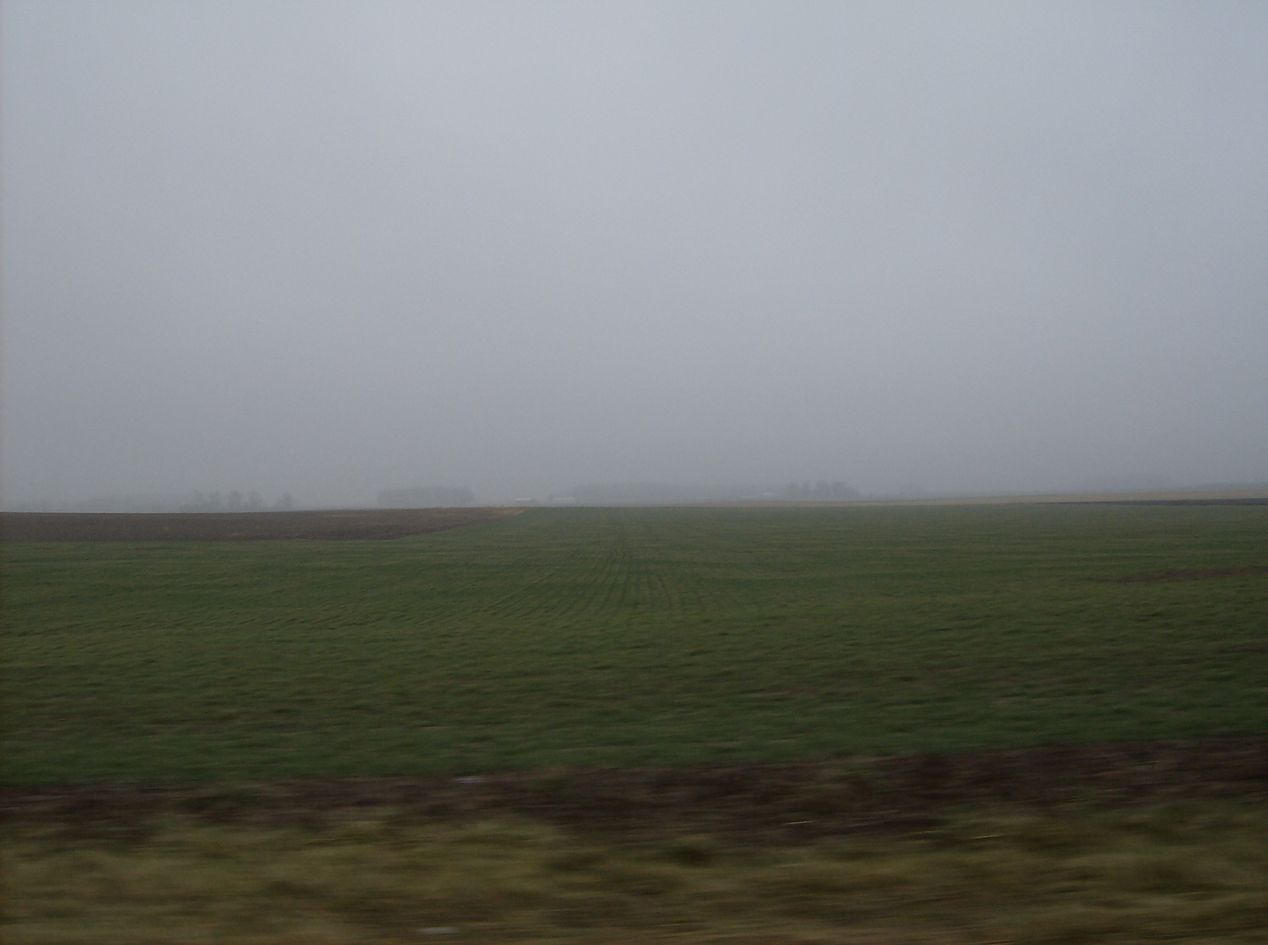 Field of winter wheat in northern Allen Township, Darke County, Ohio, United States. Picture taken southward from State Route 705.